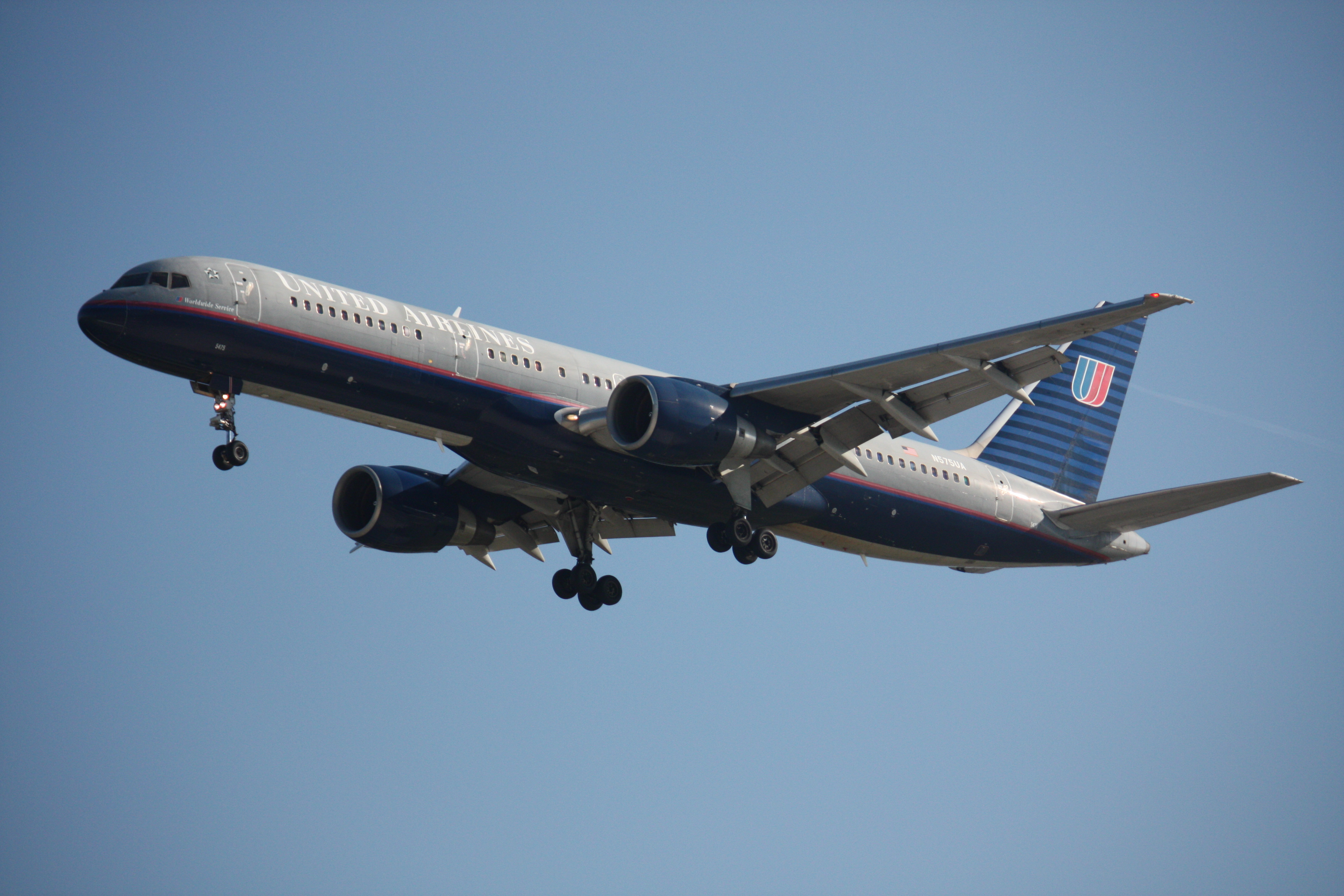 A United Airlines Boeing 757-222 landing at Vancouver International Airport